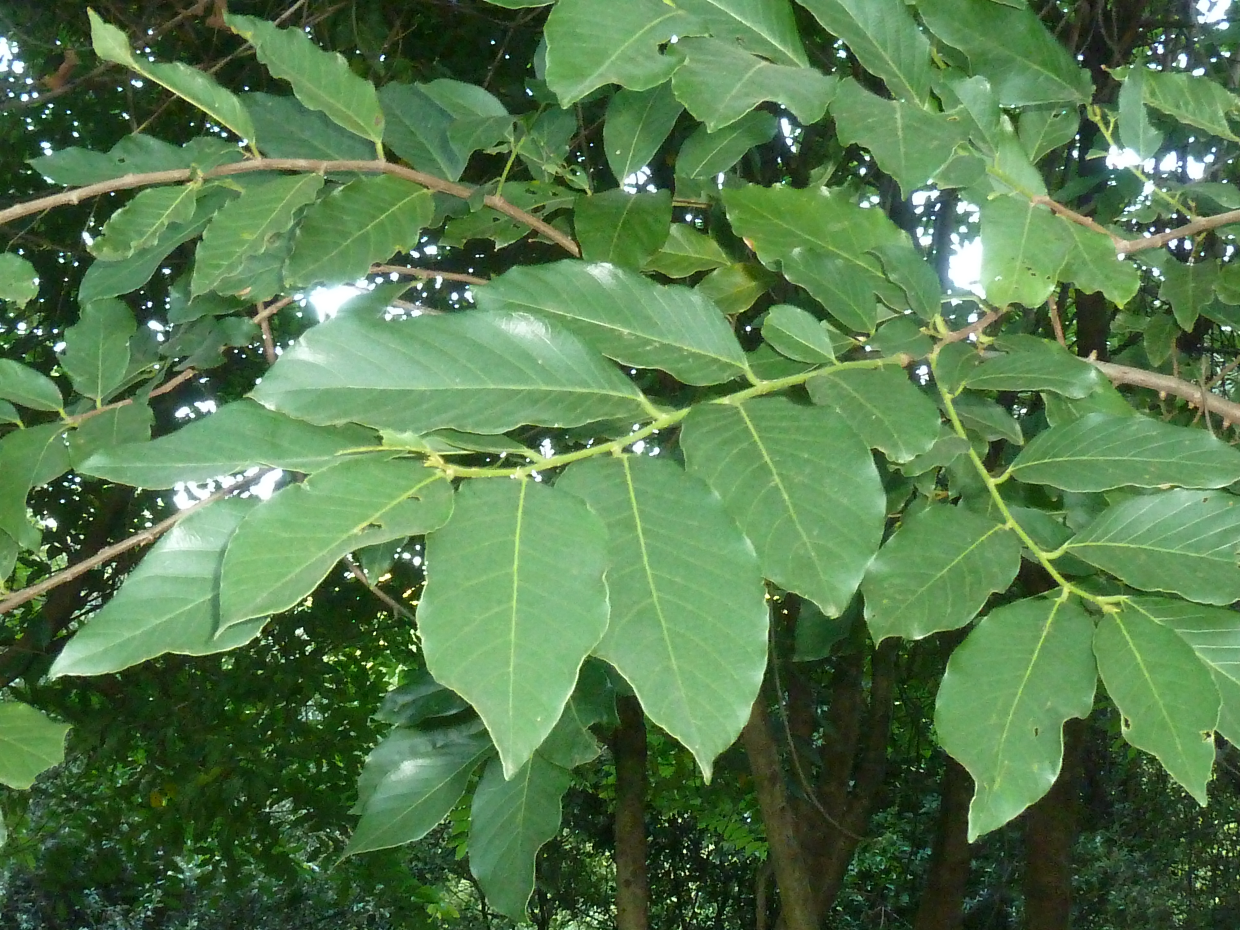 Foliage of Mitzeeri in Walter Sisulu National Botanical Garden, Roodepoort, Gauteng